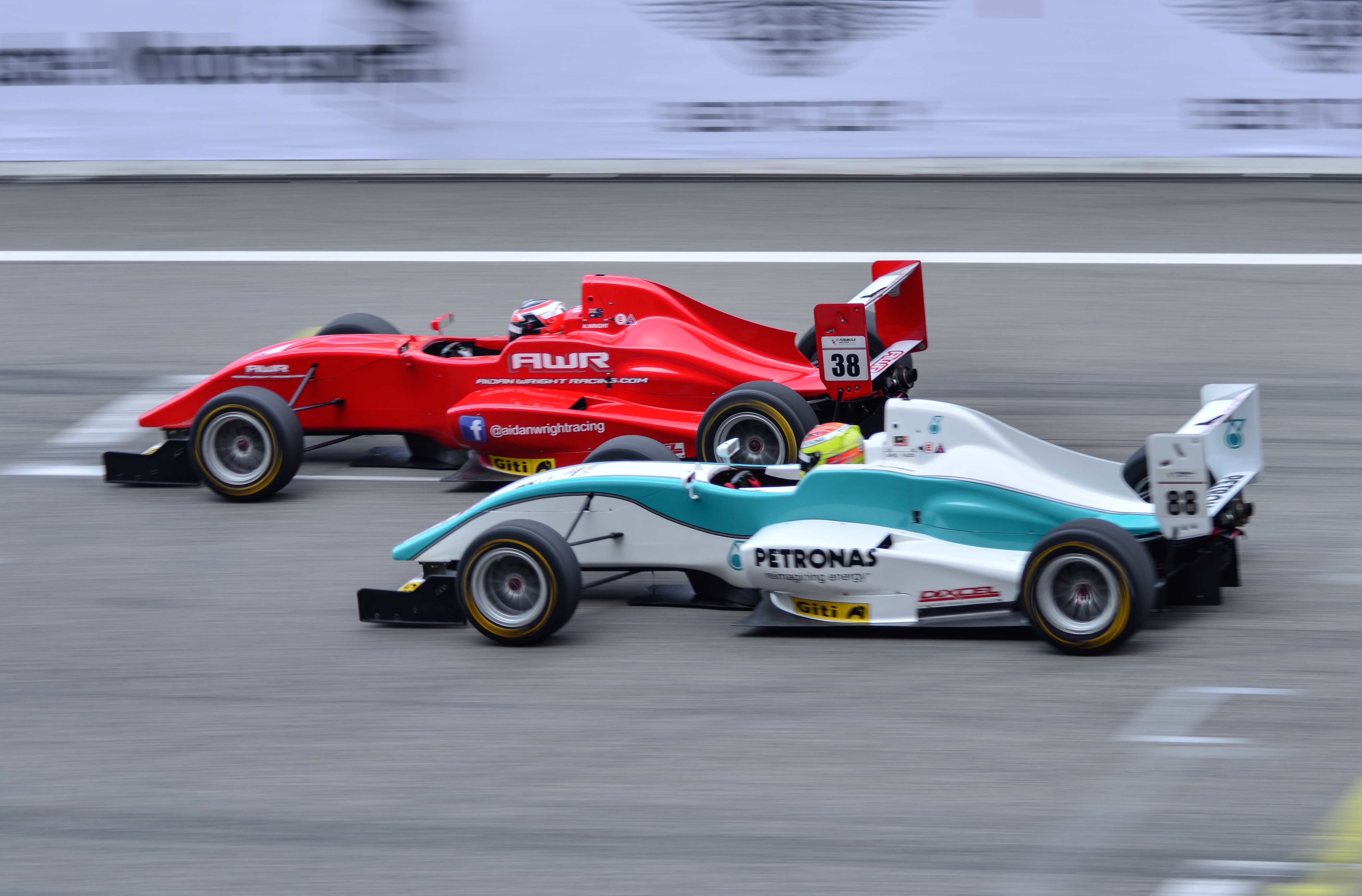 Racing at Shanghai International Circuit in 2012